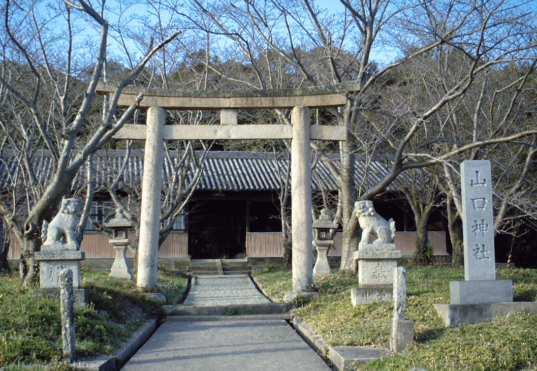 Yamaguchi Shrine